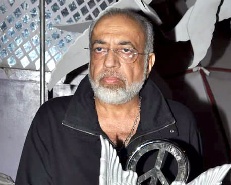 J. P. Dutta at 'Global Sounds Of Peace' live concert